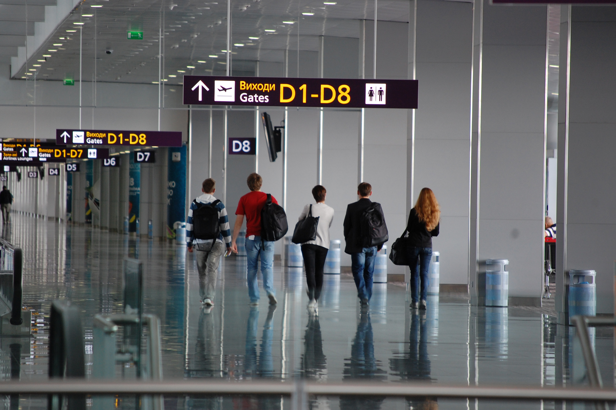 Boryspil Terminal D